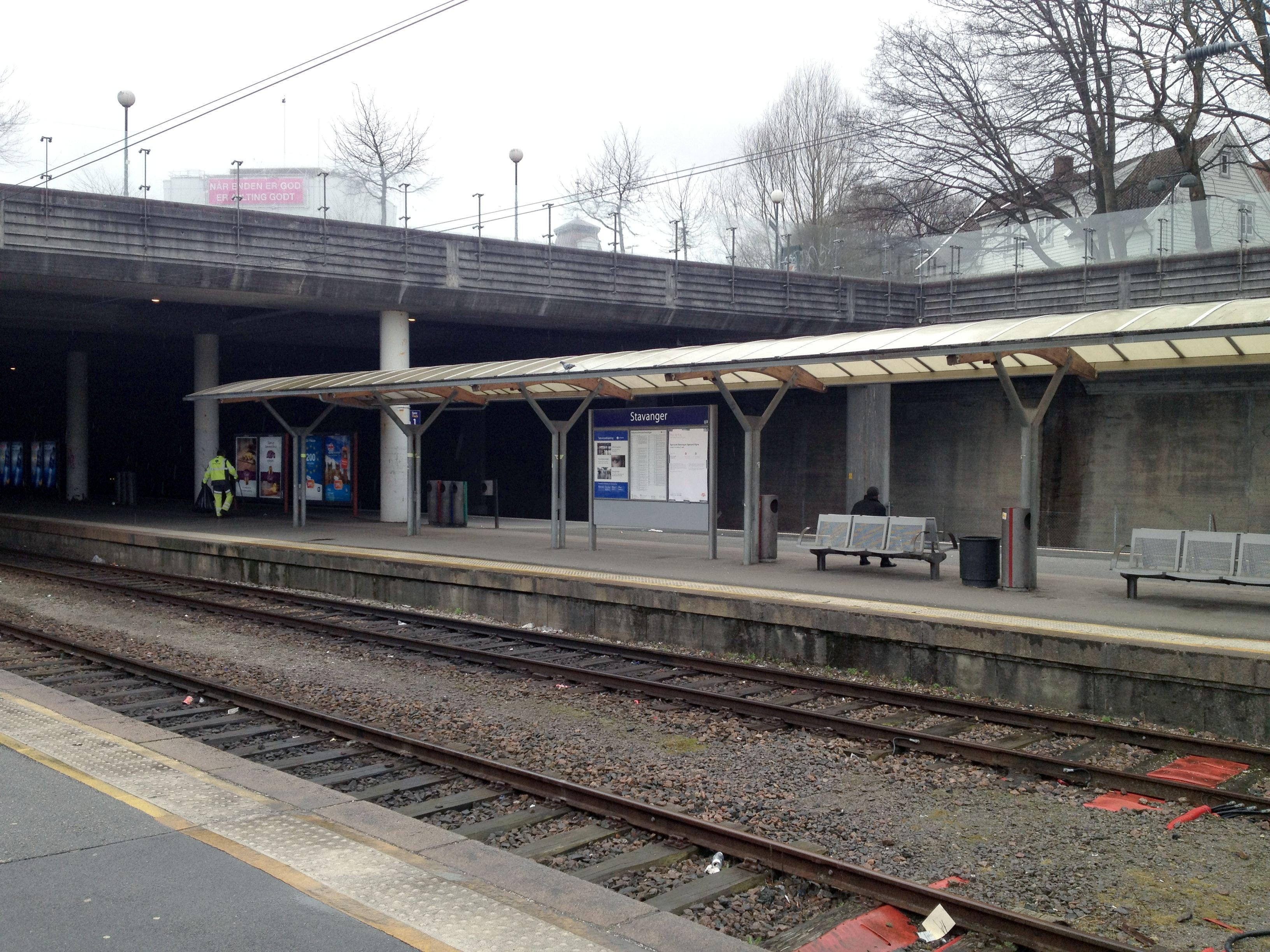 Stavanger stasjon